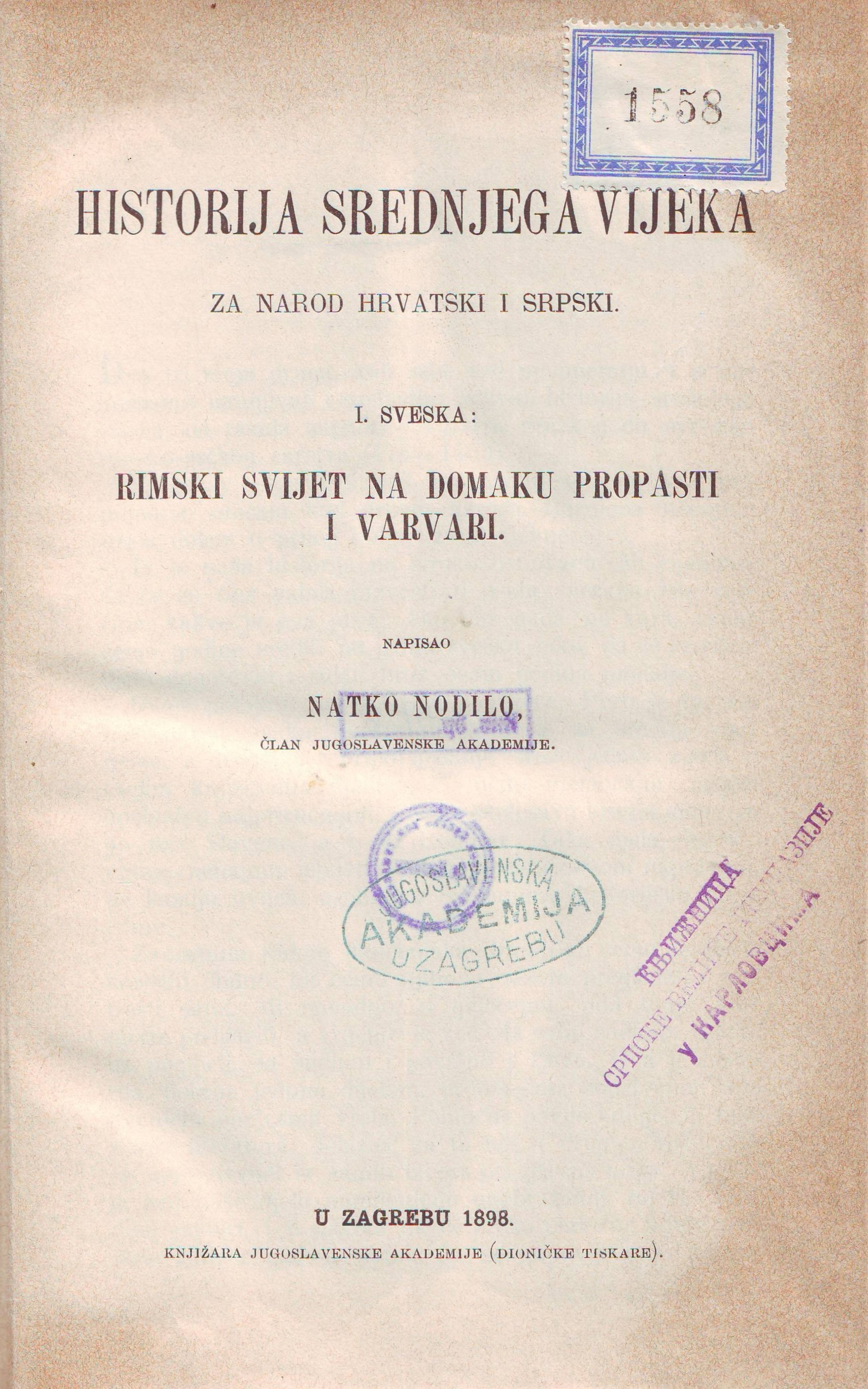 Cover of the first volume of Historija srednjega vijeka (1898) by Natko Nodilo. Srpski (latinica): Naslovna strana prve sveske Historije srednjega vijeka (1898) Natka Nodila.